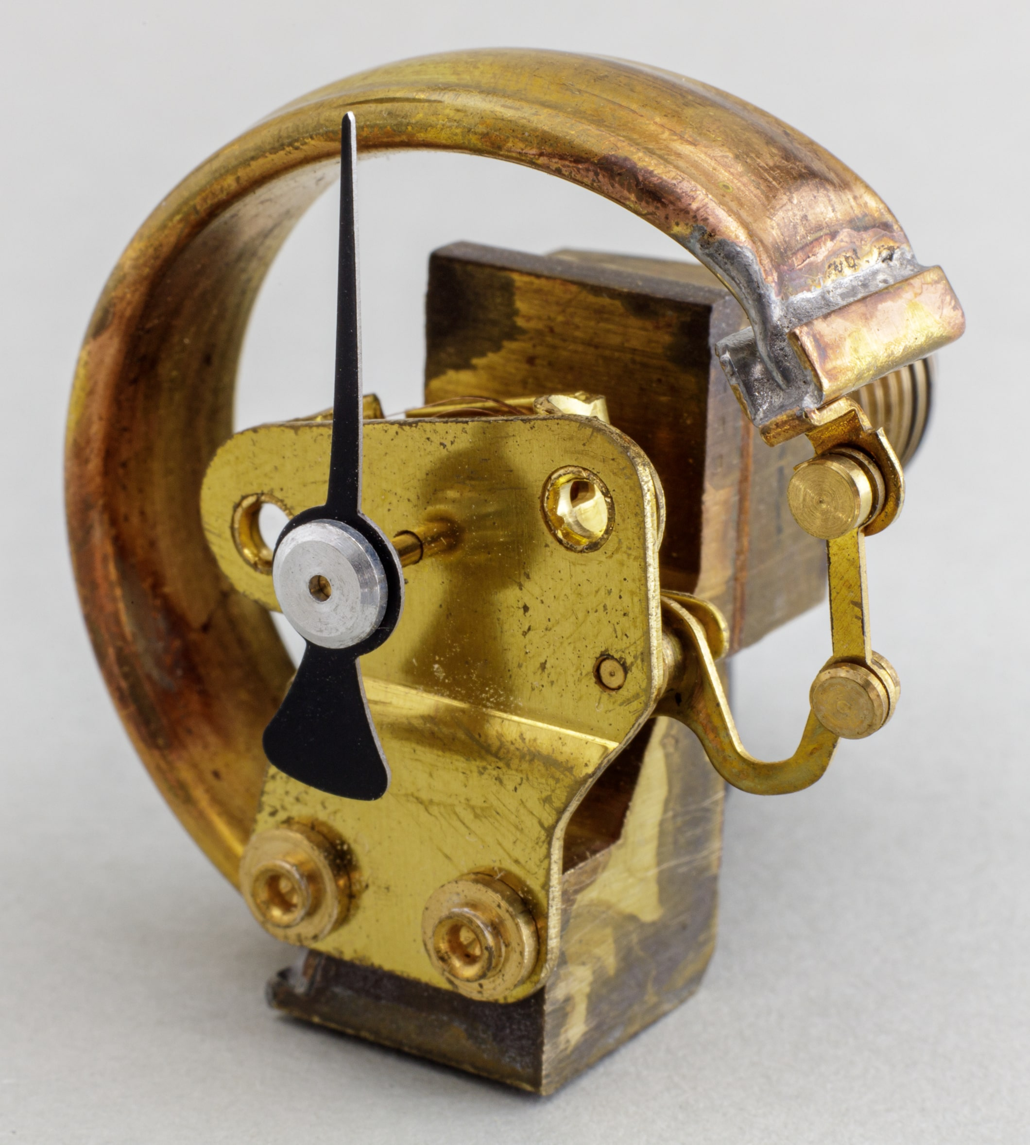 Device interior of a bourdon pressure gauge for water pressure display